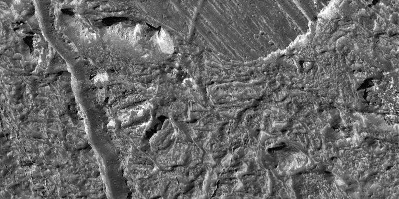 This view of the Conamara Chaos region on Jupiter's moon Europa taken by NASA's Galileo spacecraft shows an area where the icy surface has been broken into many separate plates that have moved laterally and rotated. These plates are surrounded by a topographically lower matrix. This matrix material may have been emplaced as water, slush, or warm flowing ice, which rose up from below the surface. One of the plates is seen as a flat, lineated area in the upper portion of the image. Below this plate, a tall twin-peaked mountain of ice rises from the matrix to a height of more than 250 meters (800 feet). The matrix in this area appears to consist of a jumble of many different sized chunks of ice. Though the matrix may have consisted of a loose jumble of ice blocks while it was forming, the large fracture running vertically along the left side of the image shows that the matrix later became a hardened crust, and is frozen today. The Brooklyn Bridge in New York City would be just large enough to span this fracture. North is to the top right of the picture, and the sun illuminates the surface from the east. This image, centered at approximately 8 degrees north latitude and 274 degrees west longitude, covers an area approximately 4 kilometers by 7 kilometers (2.5 miles by 4 miles). The resolution is 9 meters (30 feet) per picture element. This image was taken on December 16, 1997 at a range of 900 kilometers (540 miles) by Galileo's solid state imaging system. The Jet Propulsion Laboratory, Pasadena, CA manages the Galileo mission for NASA's Office of Space Science, Washington, DC. JPL is an operating division of California Institute of Technology (Caltech). This image and other images and data received from Galileo are posted on the World Wide Web, on the Galileo mission home page at URL galileo.